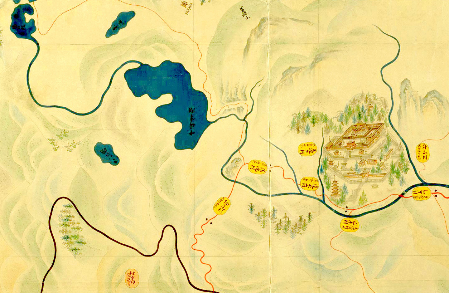 Japan: lake Chūzenji and the Tōshōgū on a Shimotsuke province's map.